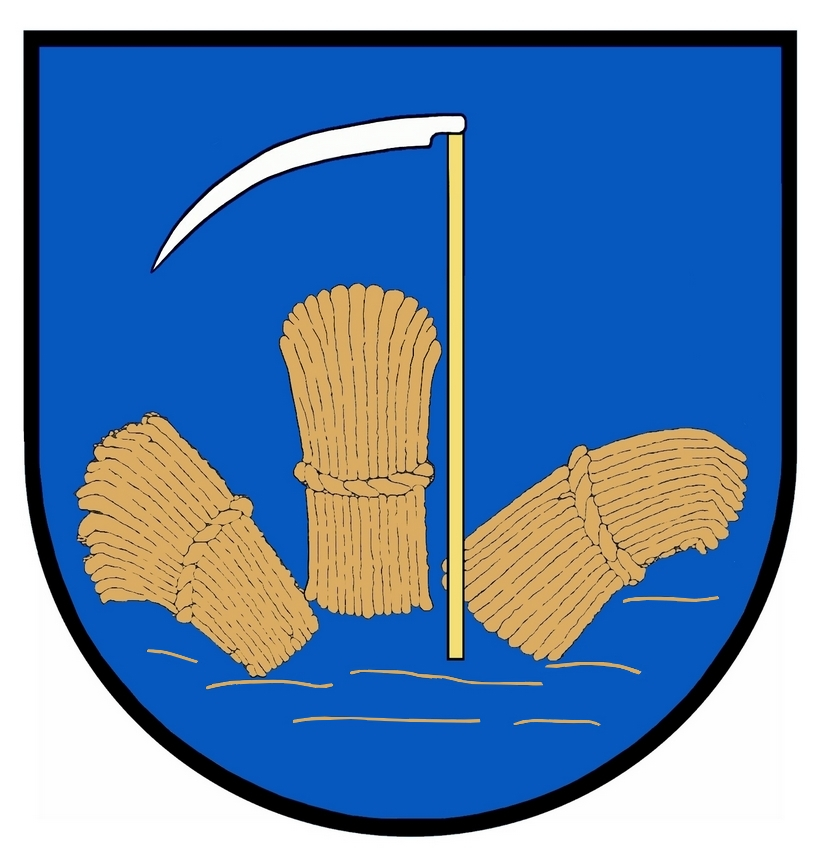 herb Leszna Górna